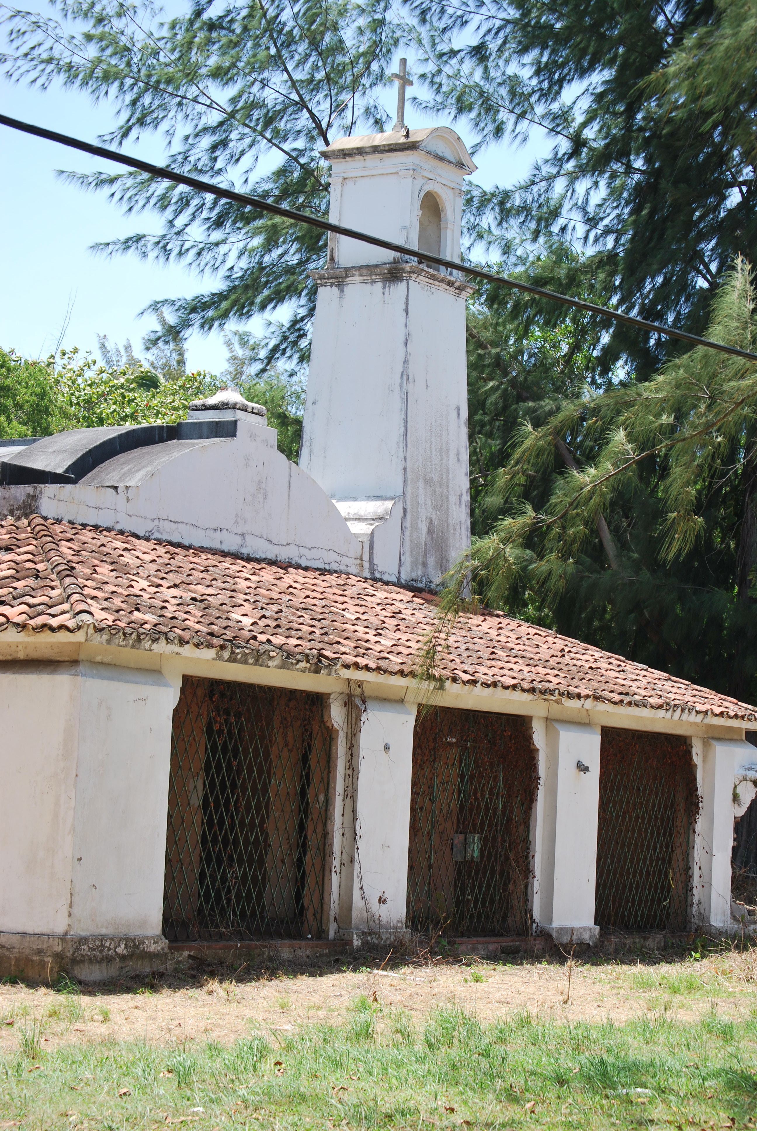 Polvorin de Miraflores, Antiqua Base Naval de Miramar Santurce